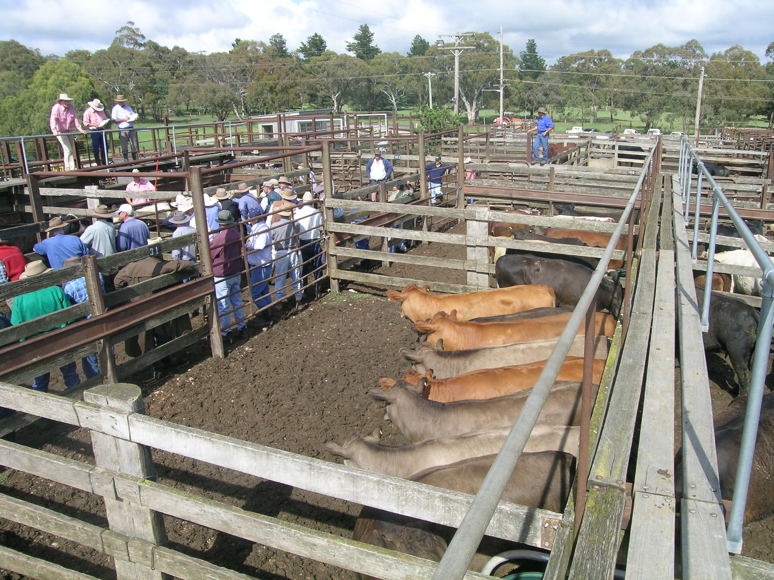 Grass-fed cattle at the fortnightly sale, Walcha, NSW.